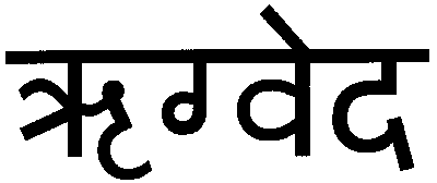 RigVeda in Devanagari script